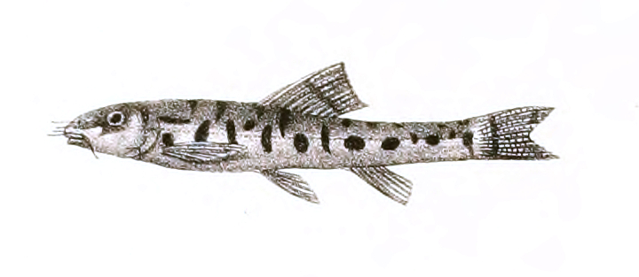 The species names / identity need verification - original names from plate are included here. The original plates showed the fishes facing right and have been flipped here. Nemacheiulus corica